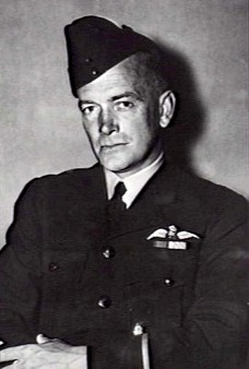 Informal portrait of Air Commodore Frederick Scherger, DSO, AFC